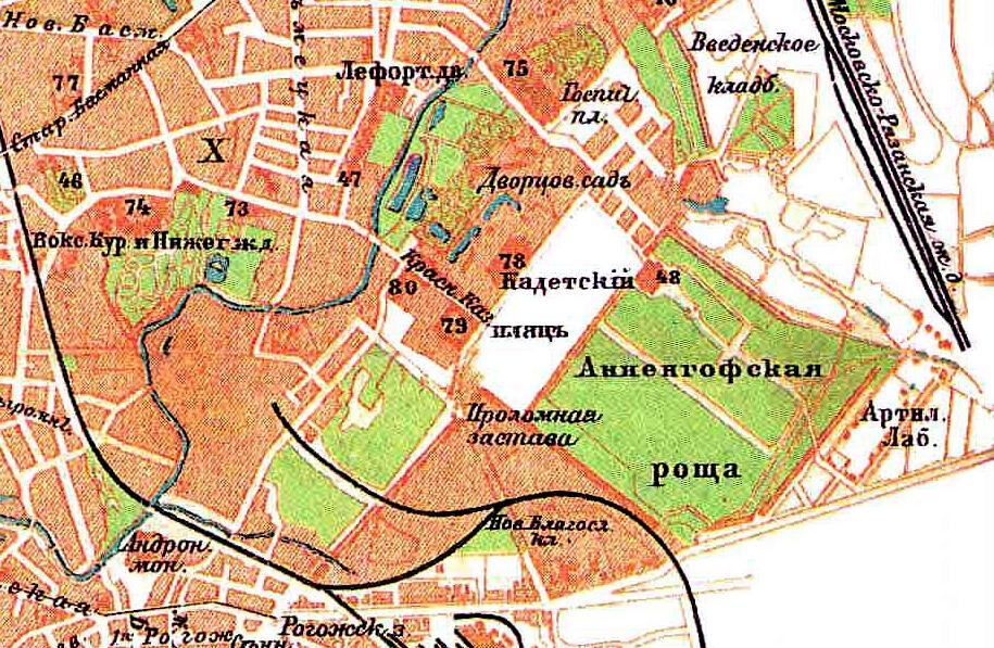 Map of the Annenhof grove in Moscow